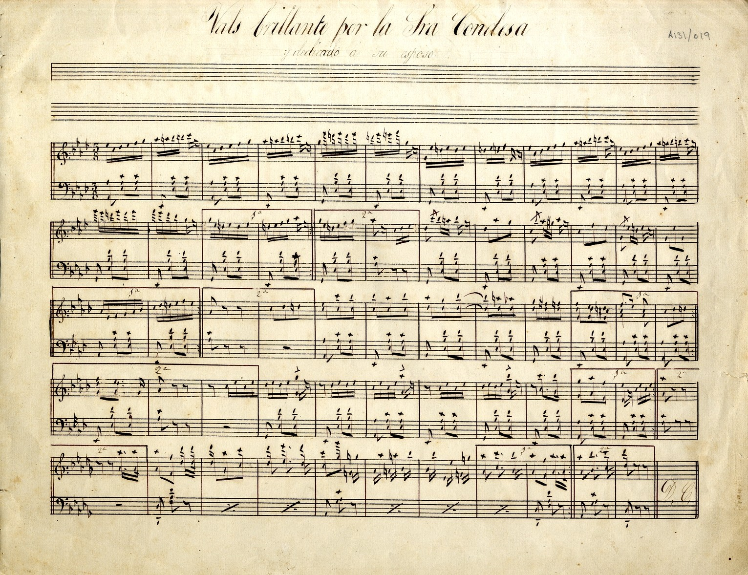 Vals brillante por la Sra Condesa